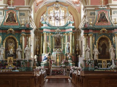 City of Ostrołęka (Poland), Saint Anthony's Church inside.